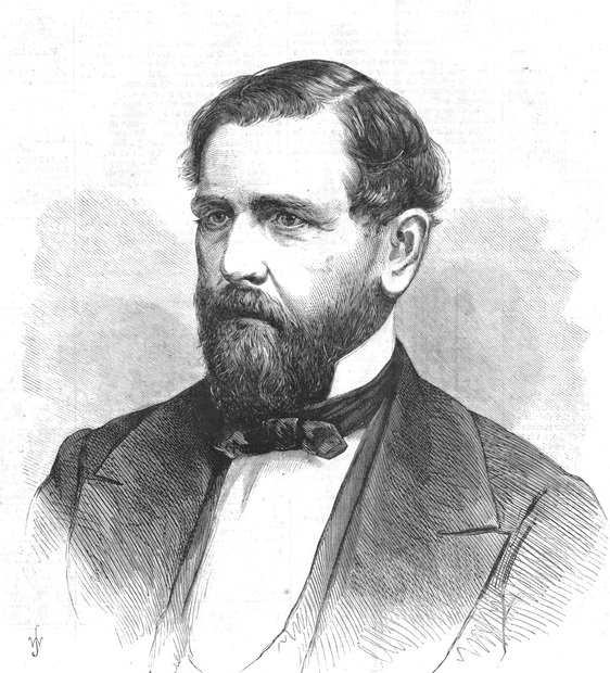 Henry Keep about 1868. Keep was an American banker, financier, stock trader, and railroader.